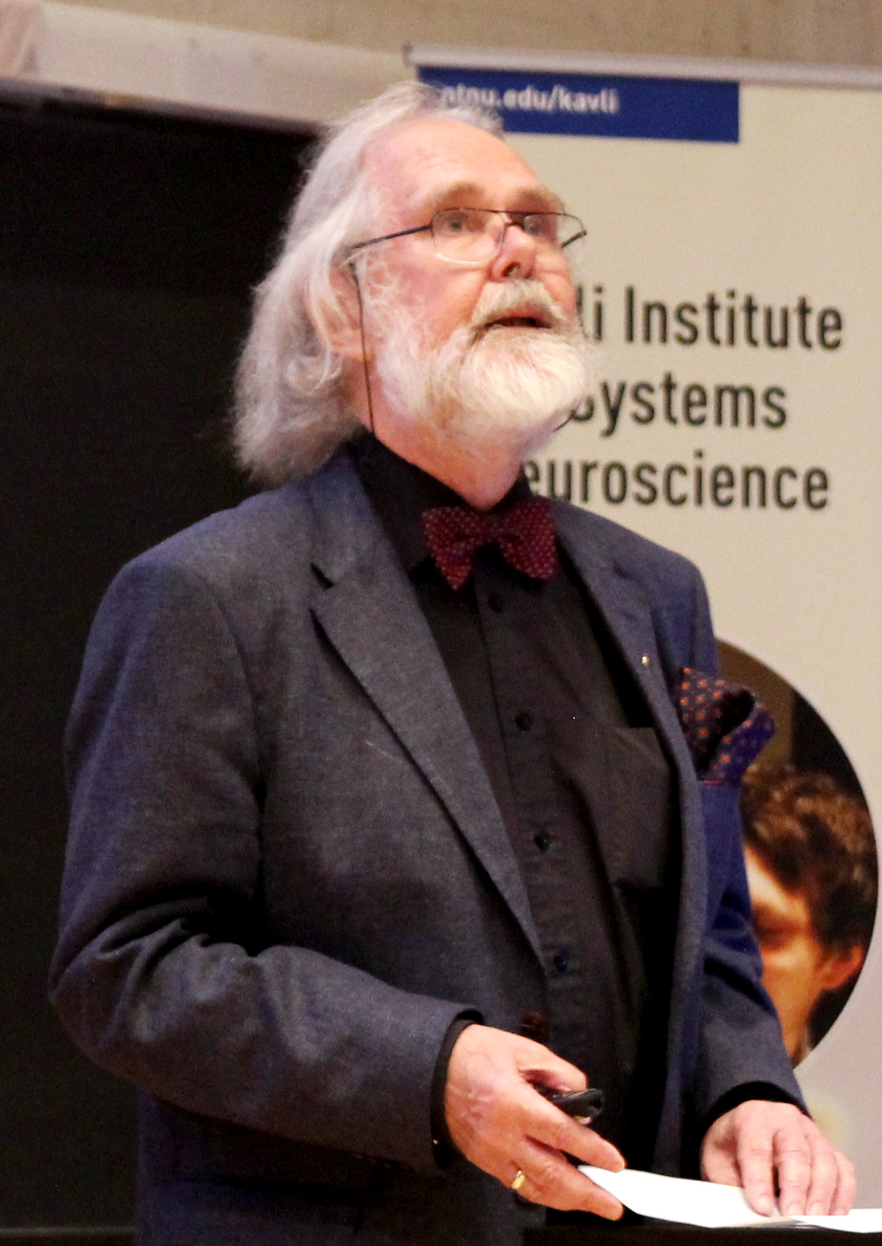 Nils Christian Stenseth, President of the Norwegian Academy of Science and Letters.